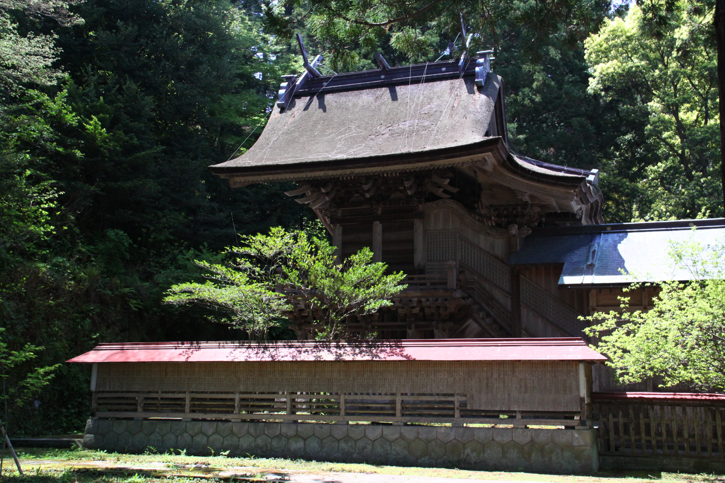 Yurahime jinja Honden